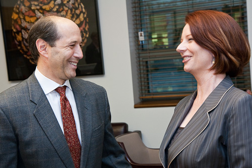 Ambassador Bleich with Prime Minister Julia Gillard in her office.